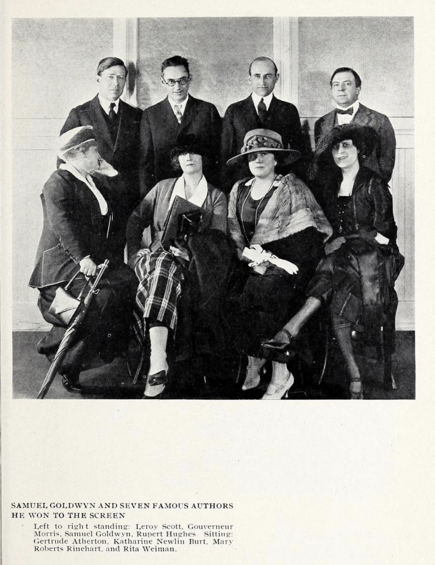 Film studio head Samuel Goldwyn with seven authors he worked with on film adaptations of their work, including Leroy Scott, Gouverneur Morris, Rupert Hughes, Gertrude Atherton, Katharine Newlin Burt, Mary Roberts Rinehart, Rita Weiman